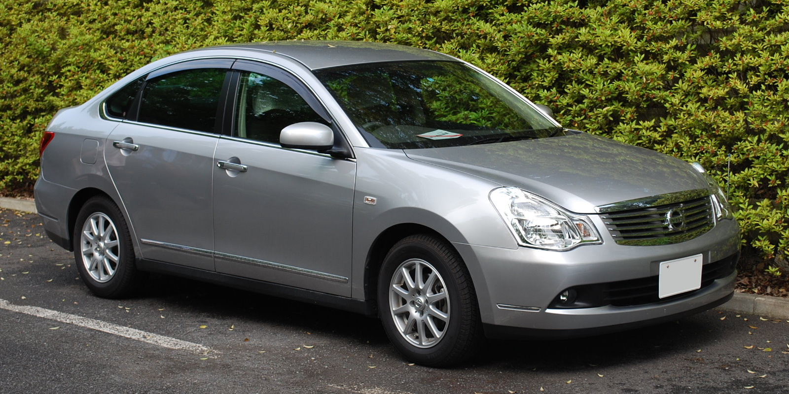 2nd generation NIssan Bluebird Sylphy (2005/12 - )